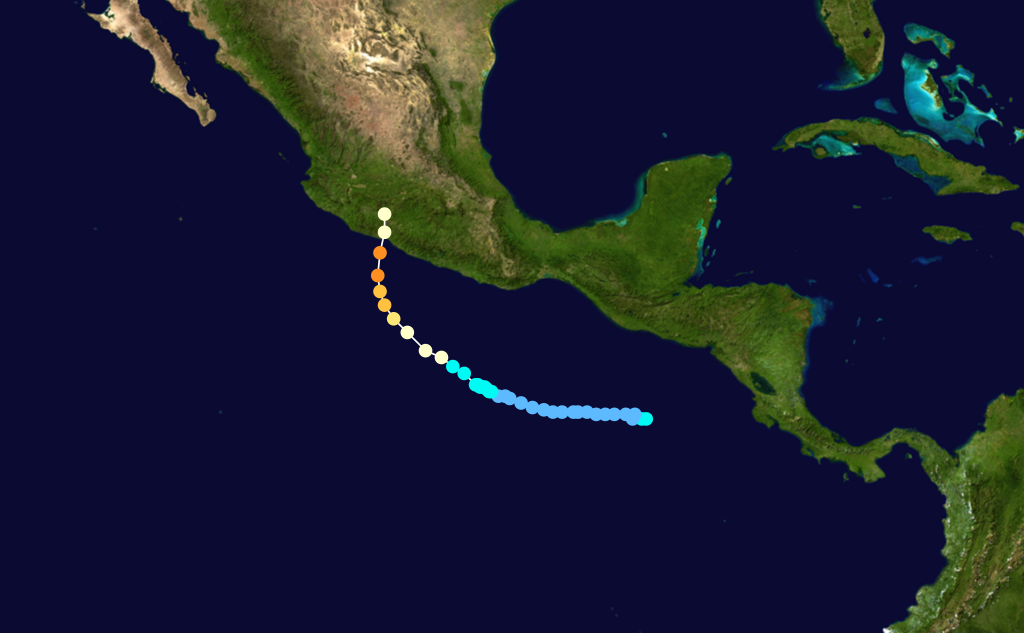 Hurricane Madeline (1976) track. Uses the color scheme from the Saffir-Simpson Hurricane Scale.